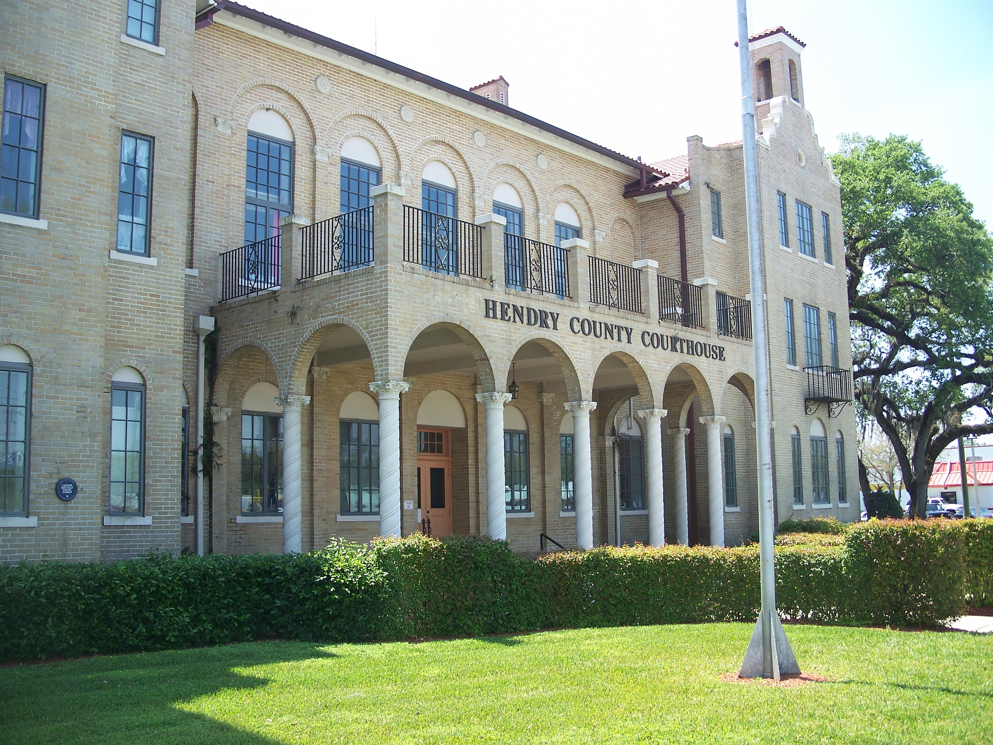 LaBelle, Florida: Old Hendry County Courthouse